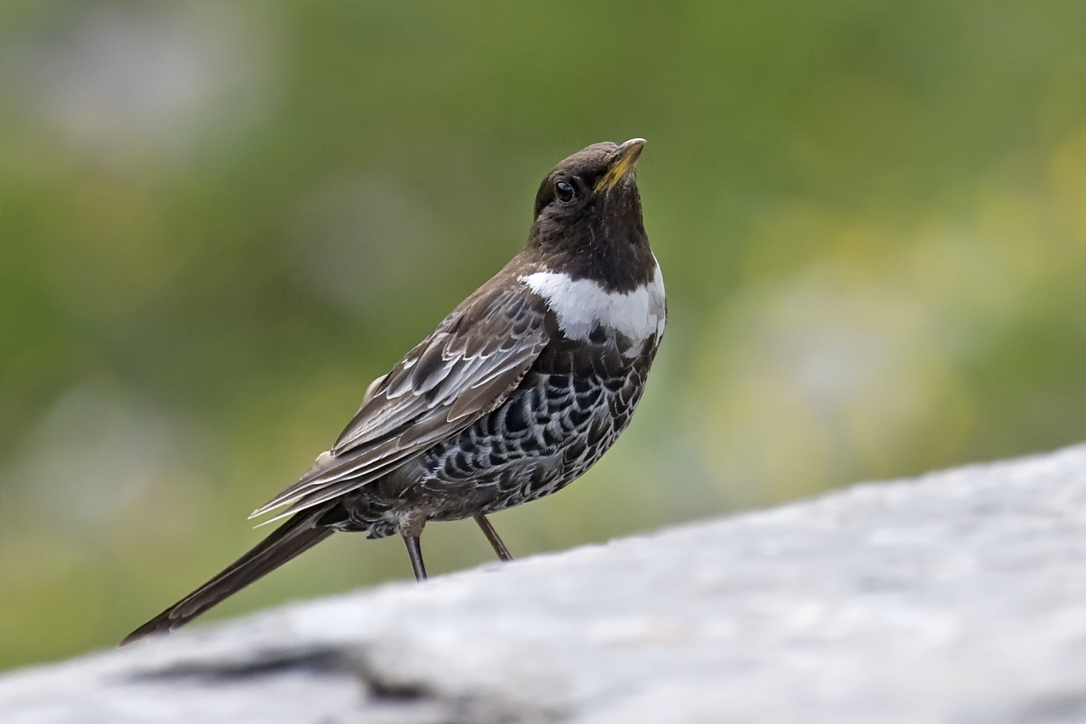 Ring Ouzel